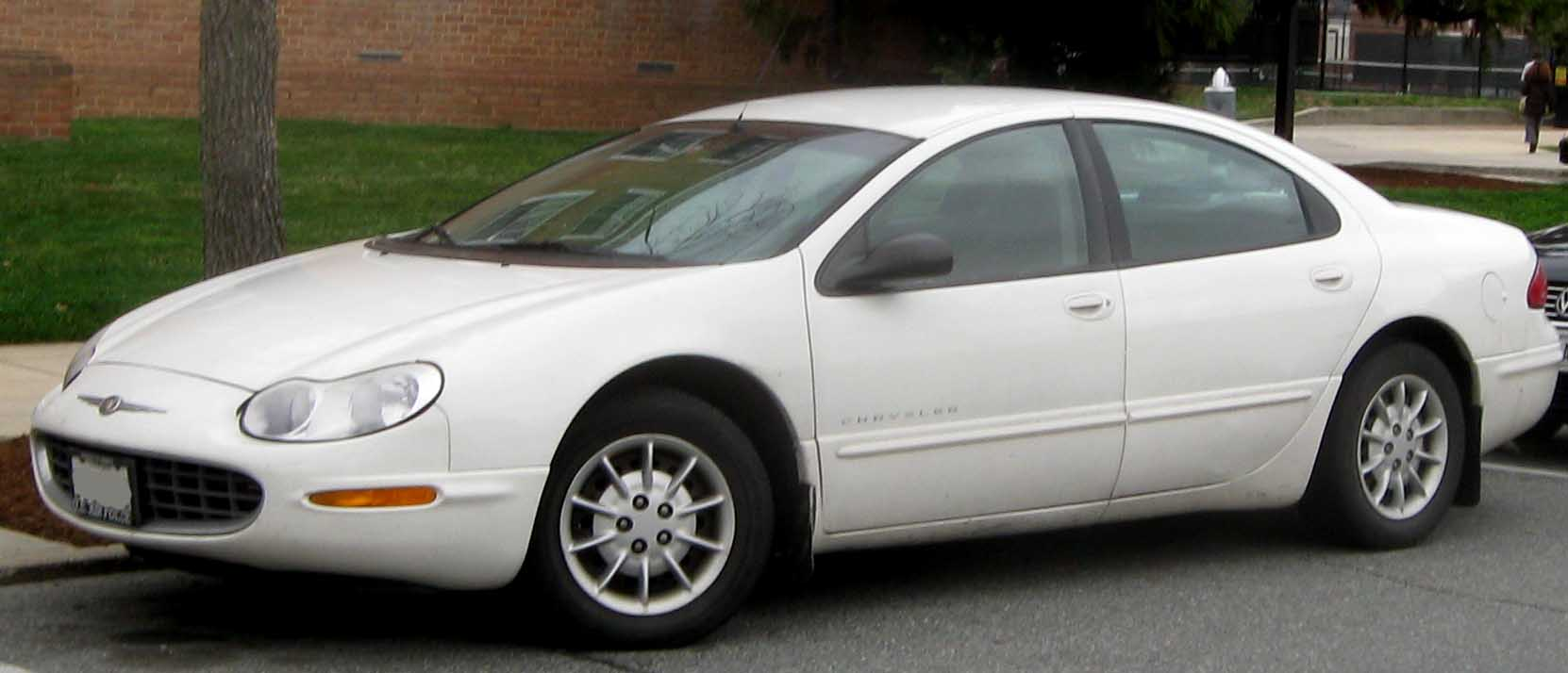 1998-2001 Chrysler Concorde photographed in College Park, Maryland, USA.